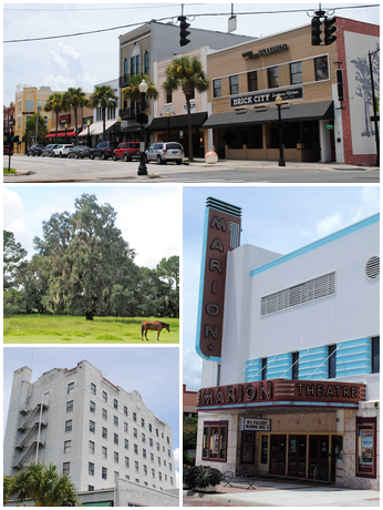 Photos I took in Ocala.